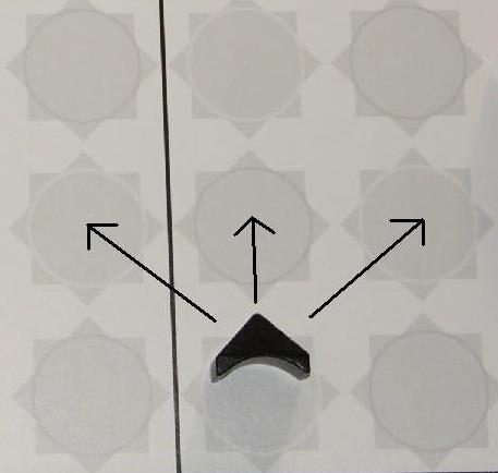 Example of movements of a single piece in a Pacru game